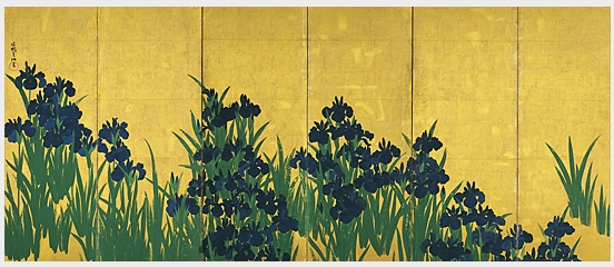 Irises (紙本金地著色燕子花図, shihonkinjichoshoku kakitsubata zu). One of two six-section folding screens (byōbu), 150.9 x 338.8 cm each. Ink and color on paper with gold leaf background. Located at the Nezu Art Museum, Tokyo. Formerly held by the Nishi Honganji, Kyoto. The screen has been designated as National Treasure of Japan in the category paintings.